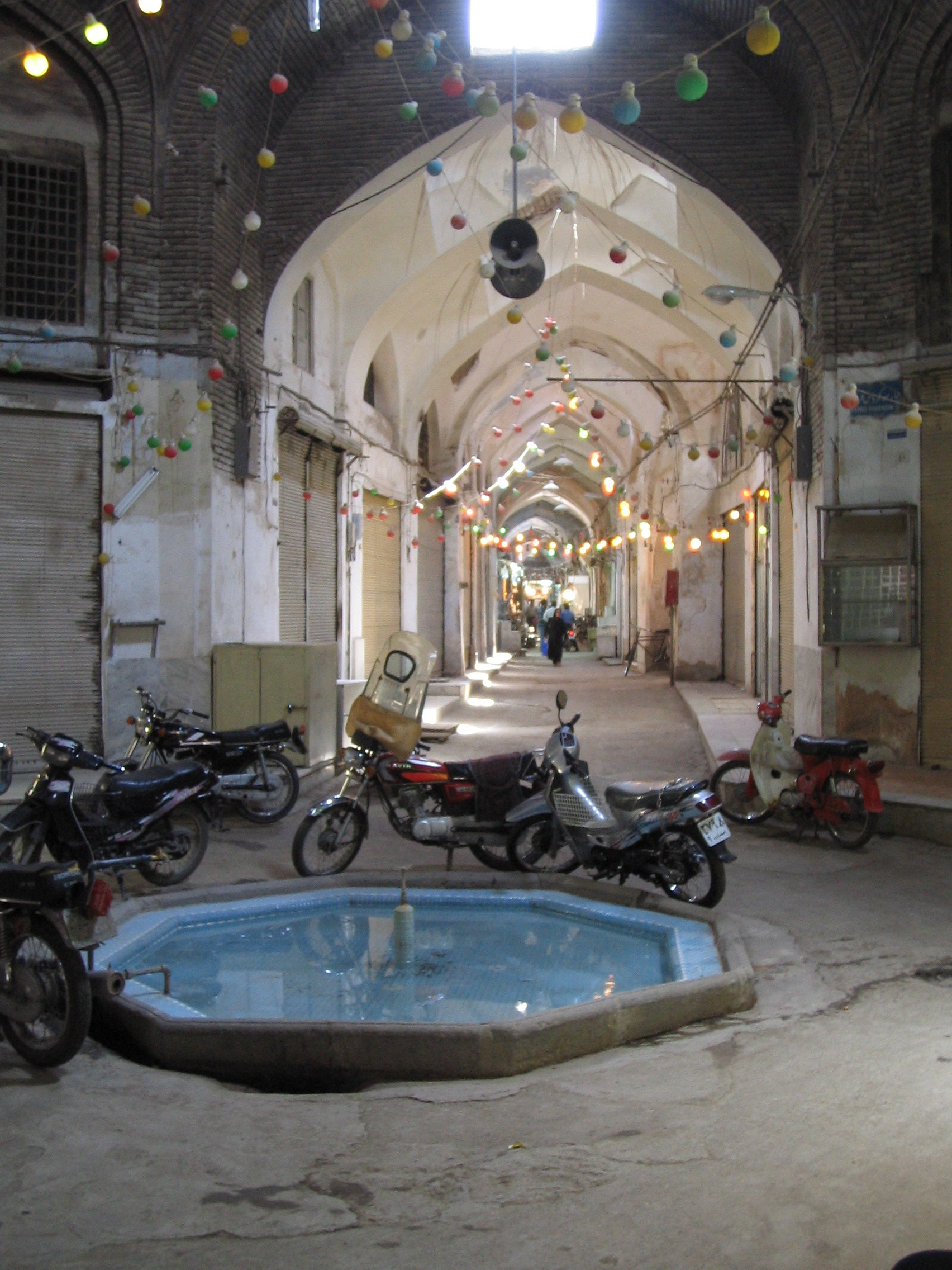 Isfahan bazar alley at lunch time. Iran